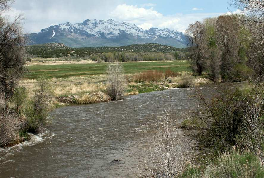 The South Fork of the Humboldt River, Nevada, looking east from where it passes under Highway 228. In the distance is the source of the river, the Ruby Mountains. Visible are Lee Peak and Ruby Dome, with Echo Canyon on the right.